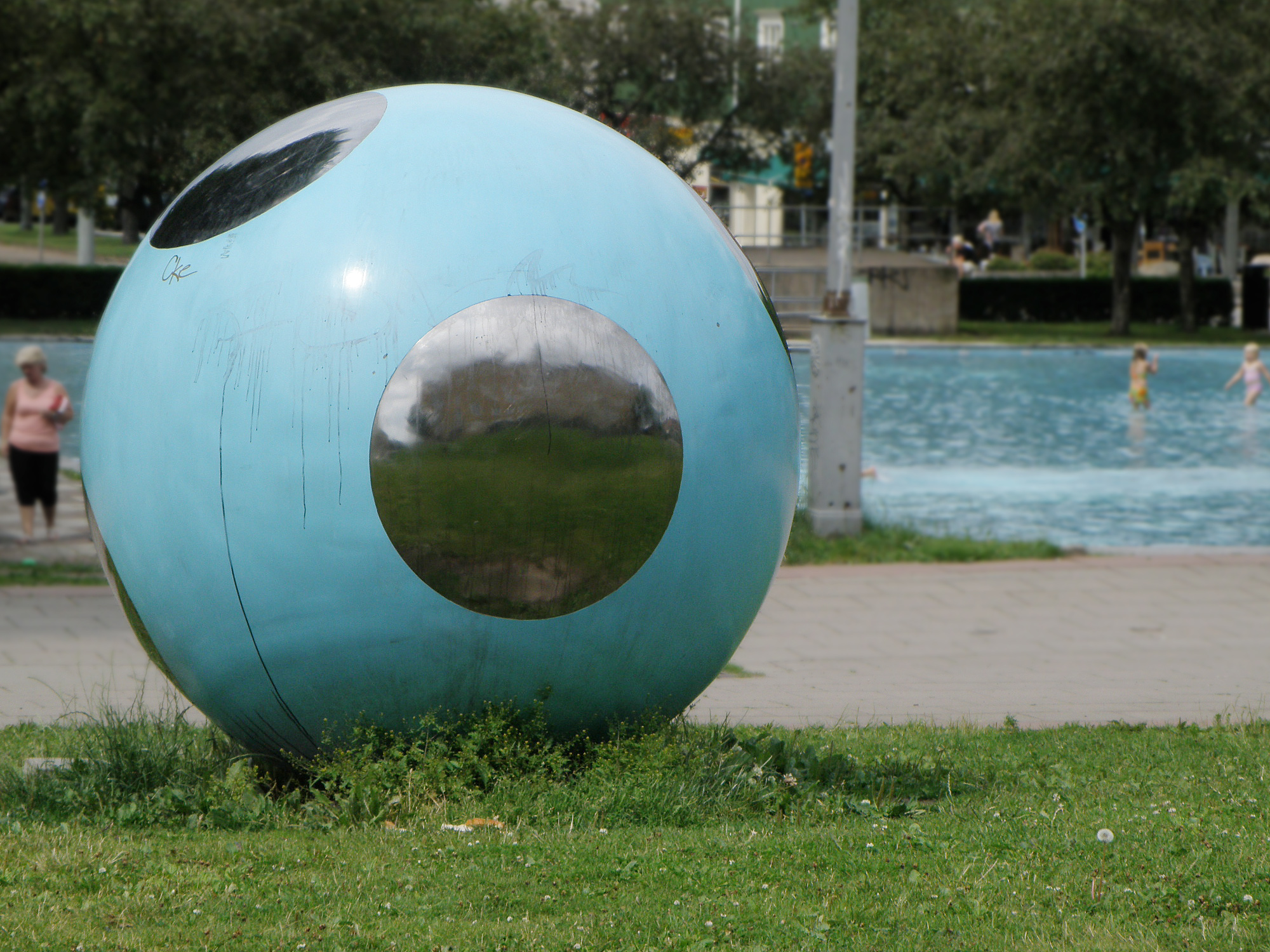 Ball, by Berit Lindfeldt, sculpture in stainless steel, partially laquered, 2007. Älvsborgsplan, Gothenburg, Sweden.